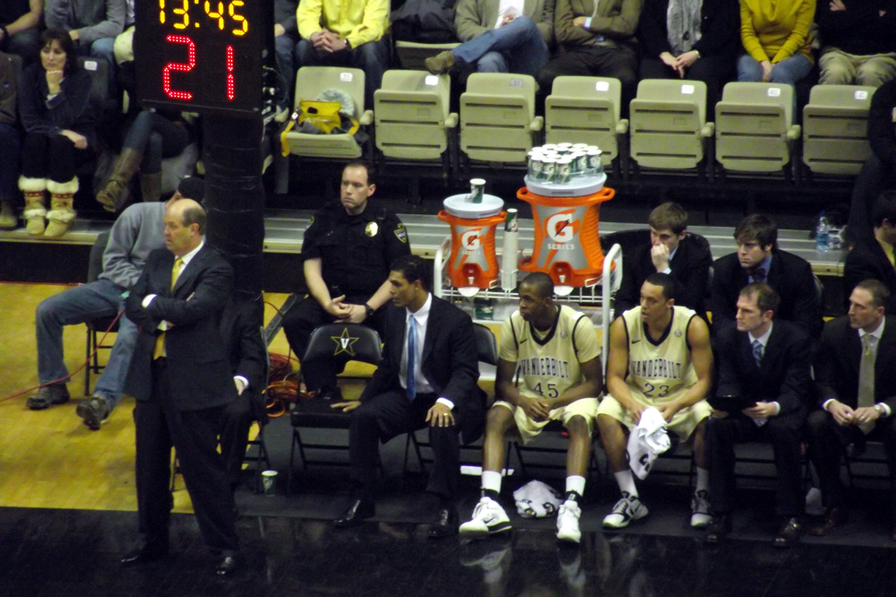 Kevin Stallings, with several assistants and players, during a Vanderbilt Commodores basketball game